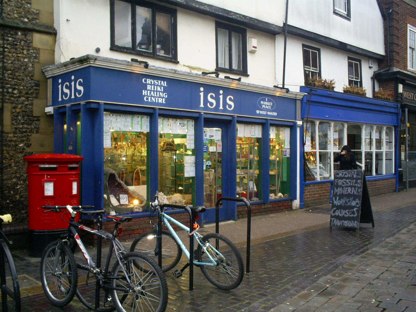 New Age shop and Healing centre , Market Place St Albans, Herfordshire, UK